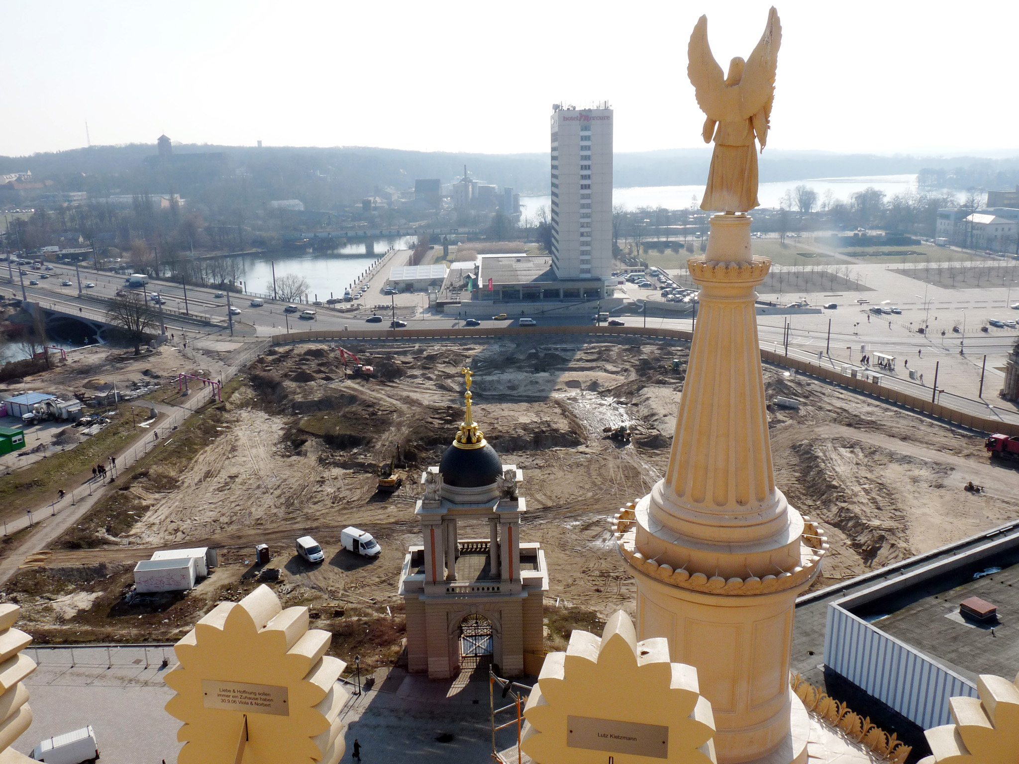 Construction site of the Potsdam City Palace in March 2010, seen from the Nikolaikirche.